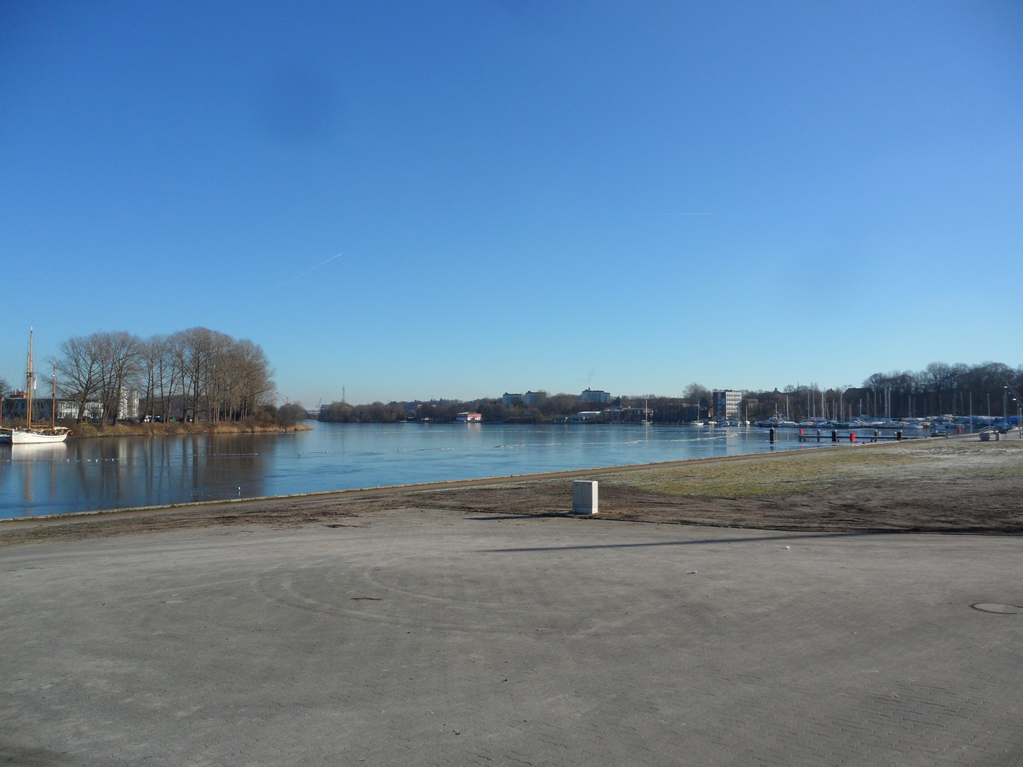 Rendsburg Obereiderhafen